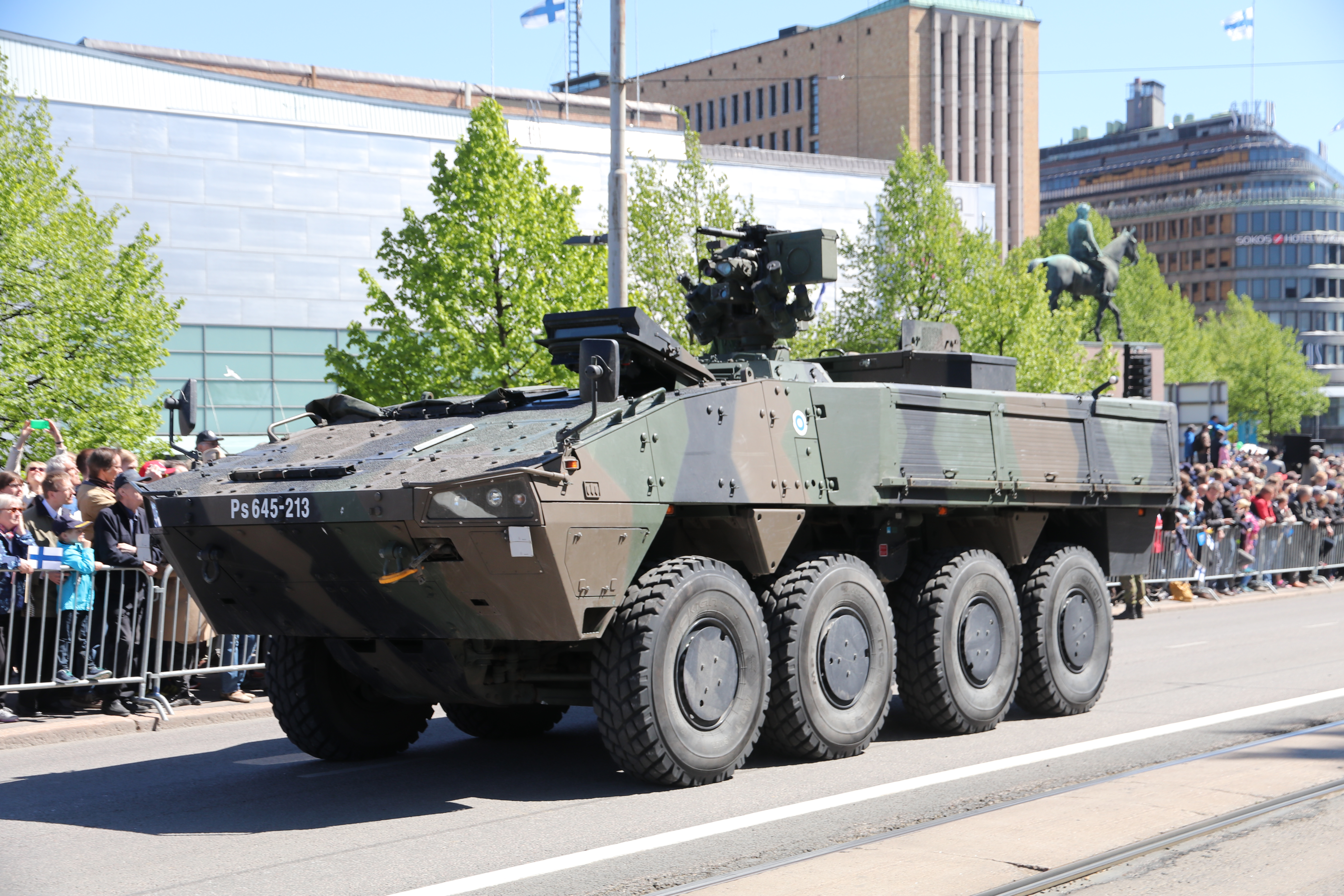 Finnish defence forces flag day 2017 parade: Patria AMV XA-360 Ps 645-213.